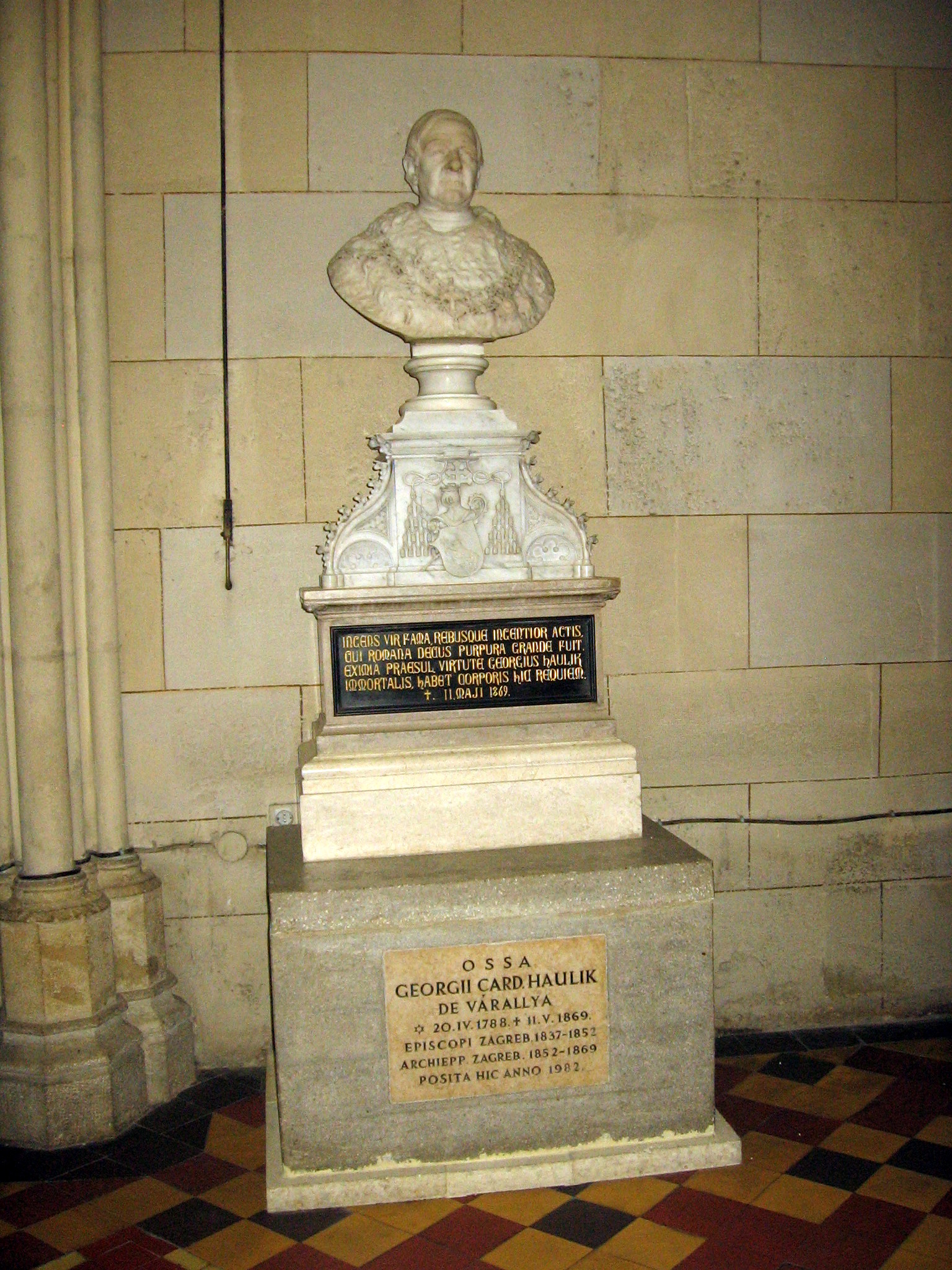 memoriale of cardinal Juraj Haulik in Chatedral of Zagreb